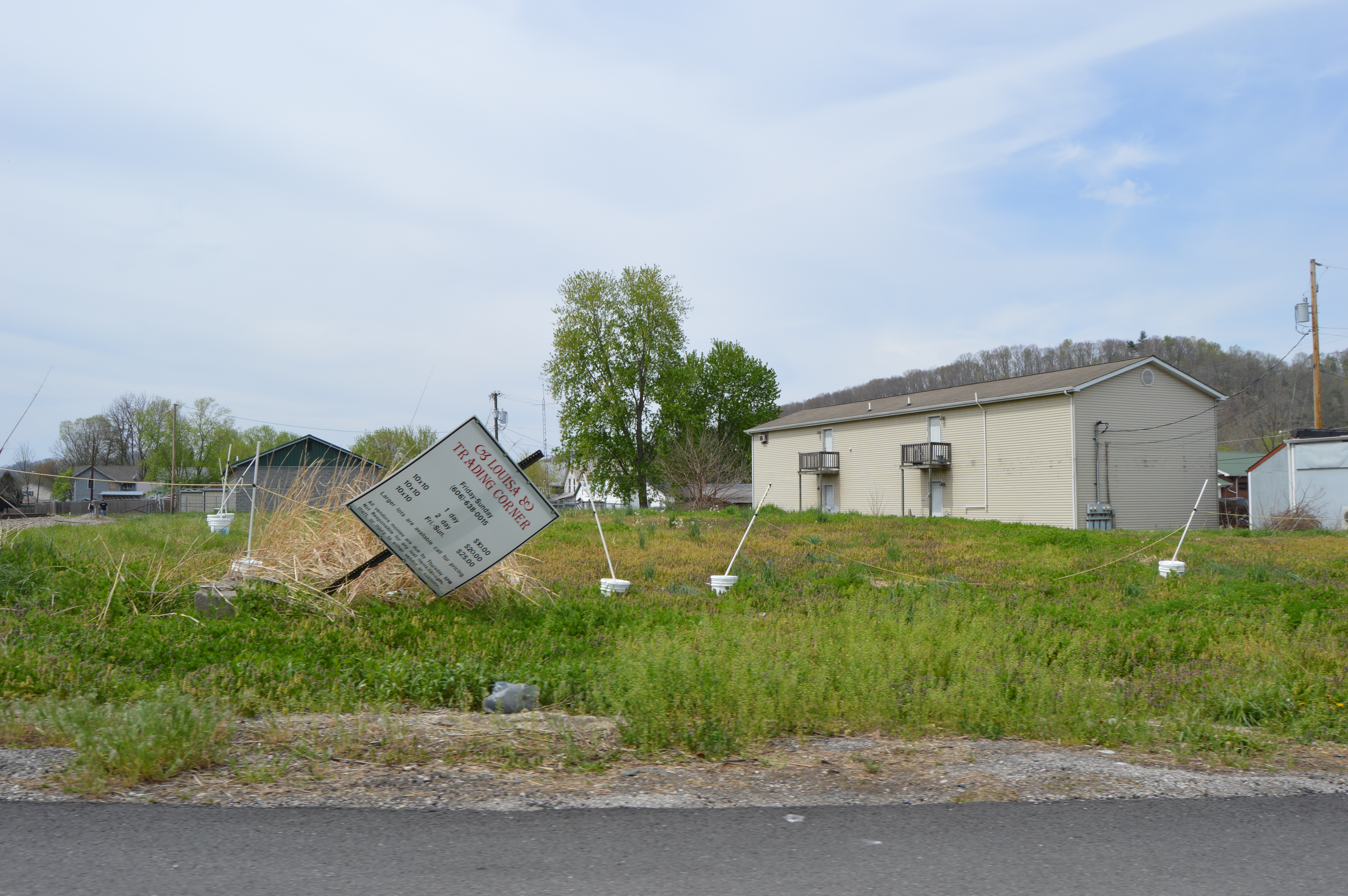 Empty land on the northern side of Pike Street just east of the rail line in Louisa, Kentucky, United States. This was formerly the site of the Big Sandy Milling Company; although listed on the National Register of Historic Places in 1988, it has since been destroyed.